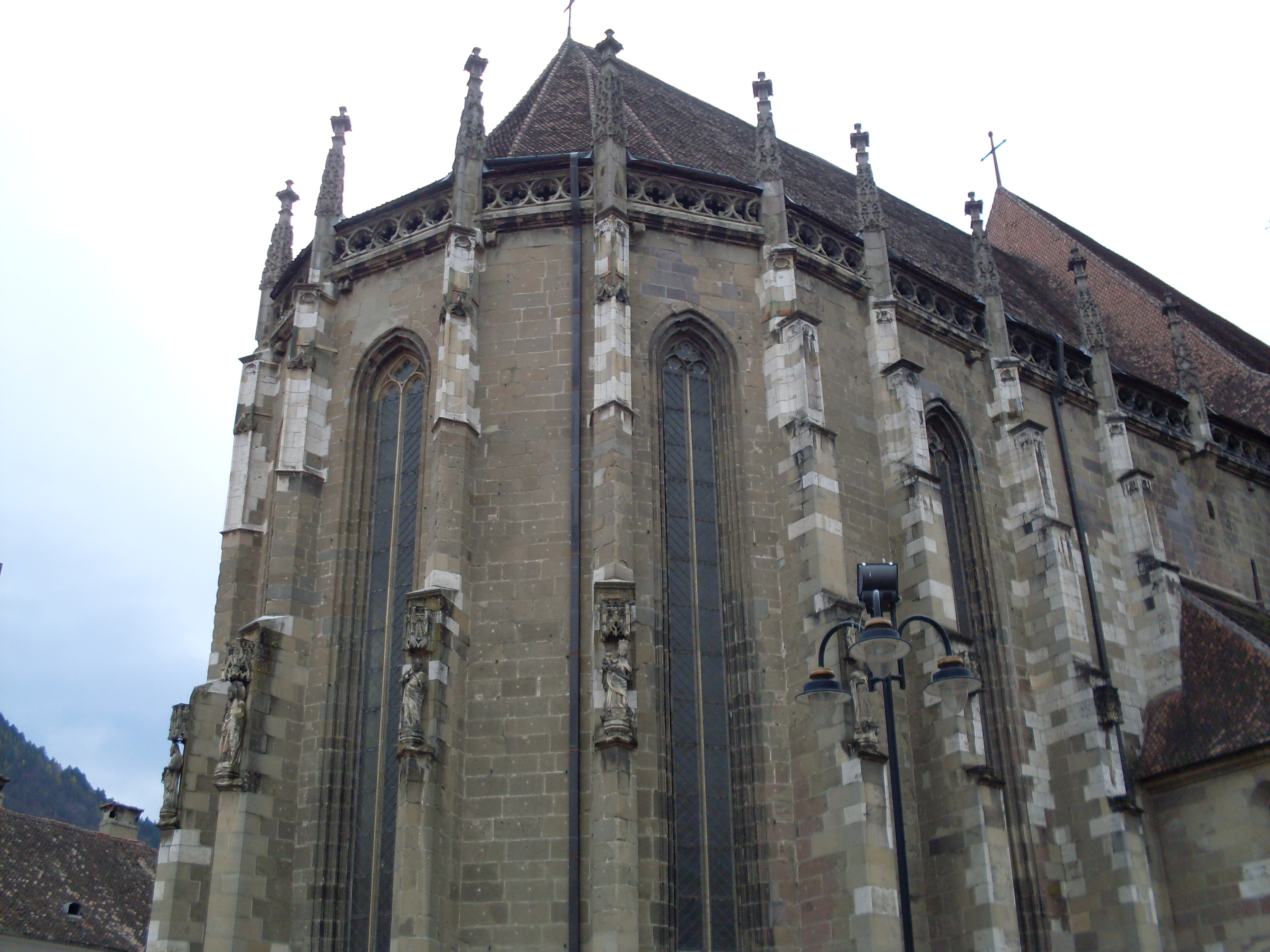 View of Black Church of Braşov